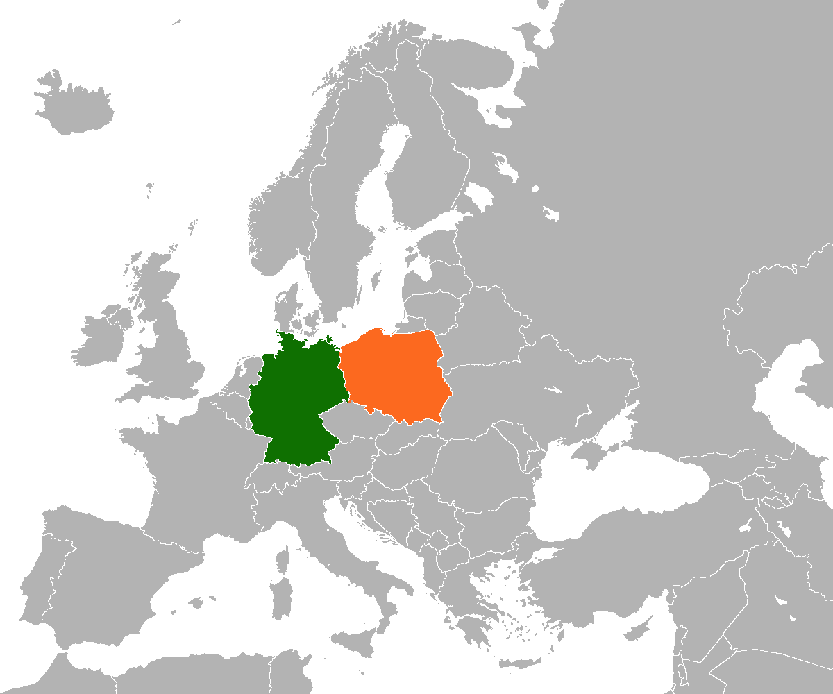 Map of Europe indicating Germany and Poland.